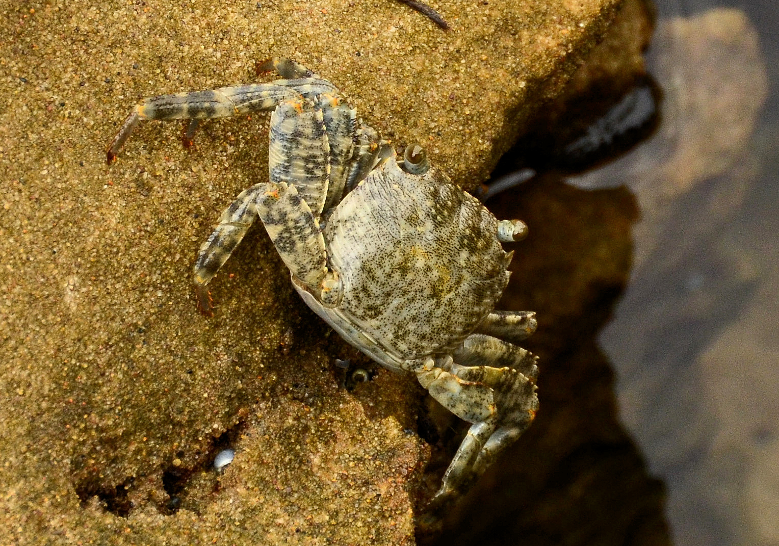 Tuberculate crab (Plagusia depressa subsp. tuberculata) at a rock pool in iSimangaliso Wetland Park, KwaZulu-Natal, South Africa